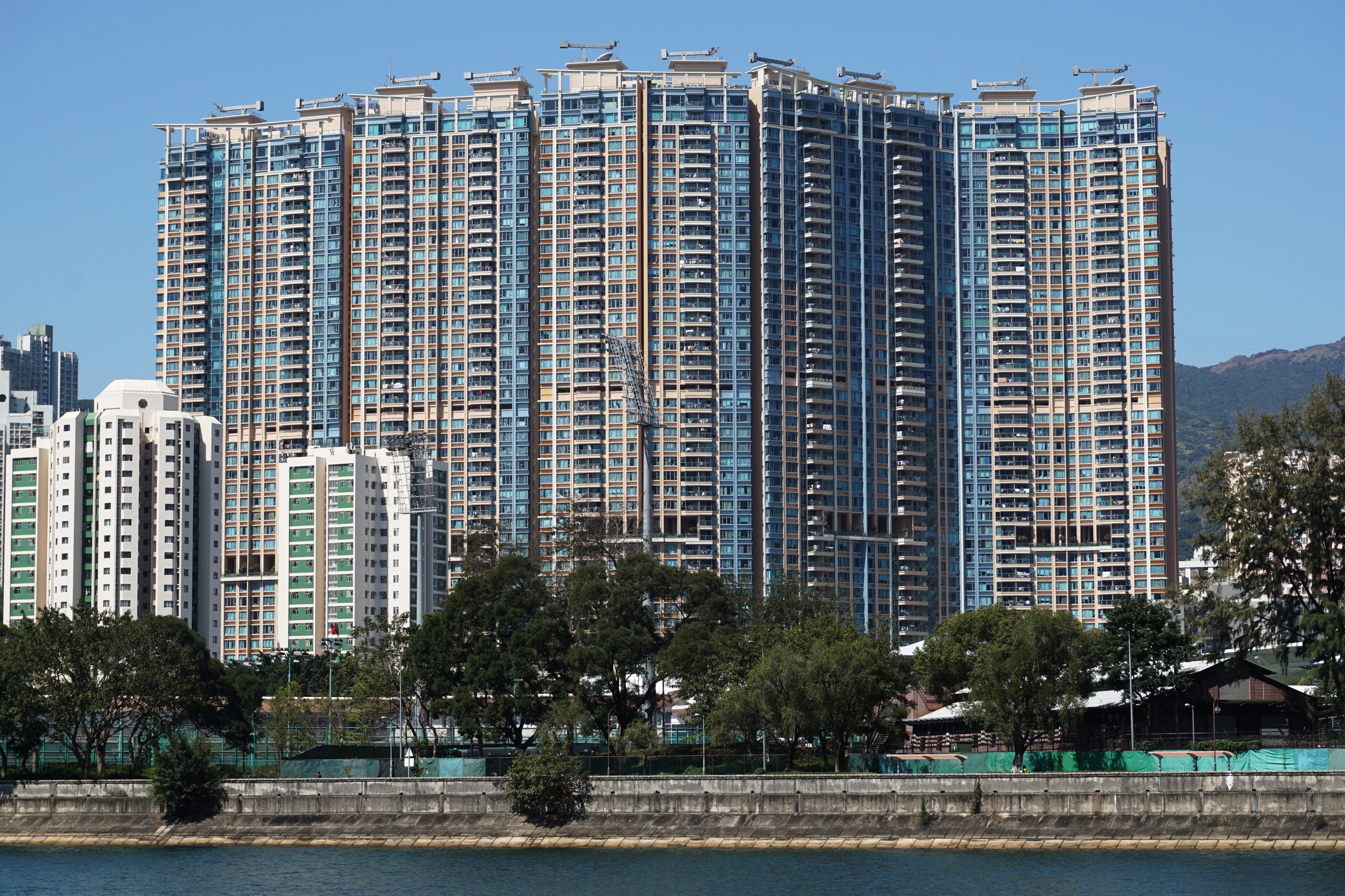 The Palazzo in Fo Tan, Hong Kong.